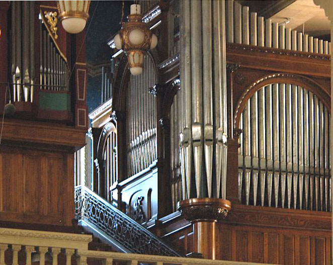 View of the Fisk-Nanny organ in the Stanford Memorial Church Clifornia, USA.